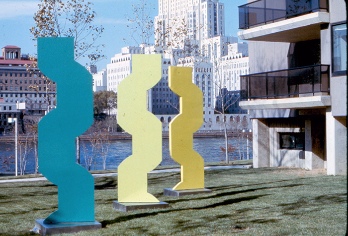 'Wind Intervals,' by Phyllis Mark, 1976. Photograph of the work installed on Roosevelt Island, NYC. Stainless and enameled steel. Each unit, 11' tall on a 3' square base. The units turn in the wind.